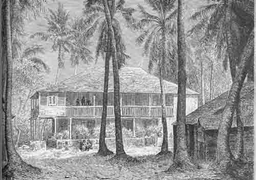 House in Port-au-Prince, 18th century